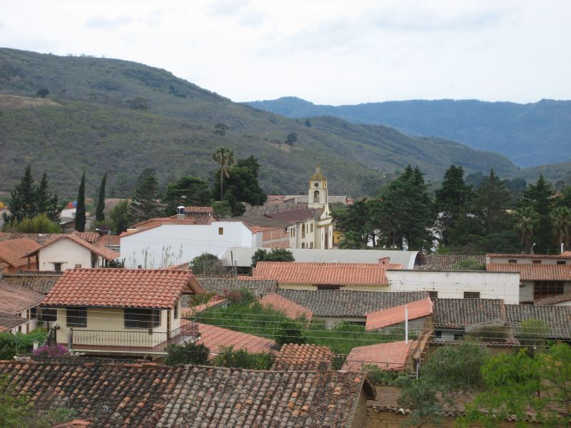 a view of this small Bolivian town from the hills around it.